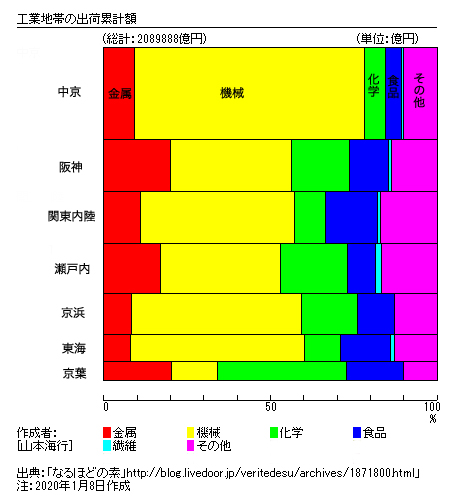 量率グラフのサンプルとして作成。データは2017年のもの。